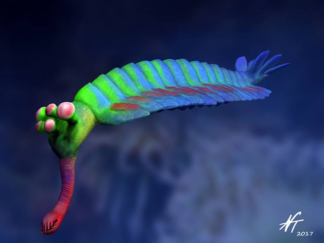 Life restoration of Opabinia regalis